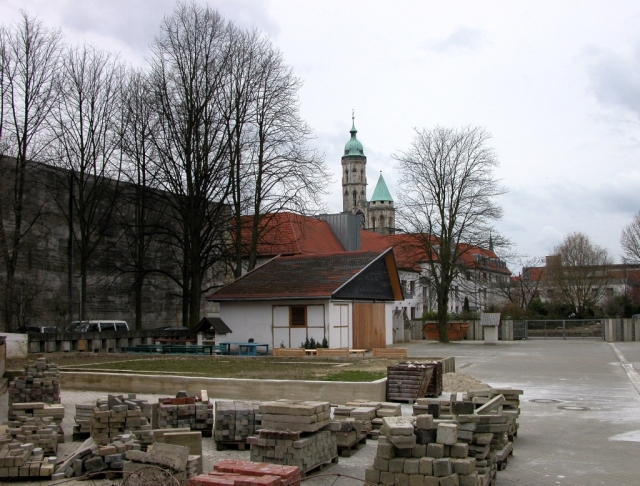 Brunswick, Germany: Location, where Nickelnkulk used to be until 15 October 1944.